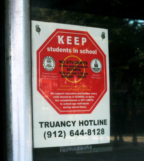 Truancy hotline road sign. (Savannah, USA)